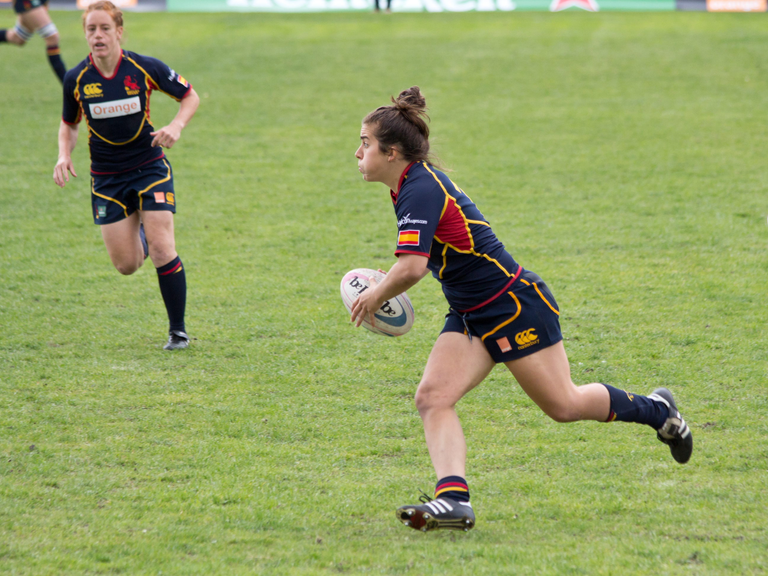 Game of the 2013 Women's European Qualification Tournament between Italy and Spain 7-38(b).